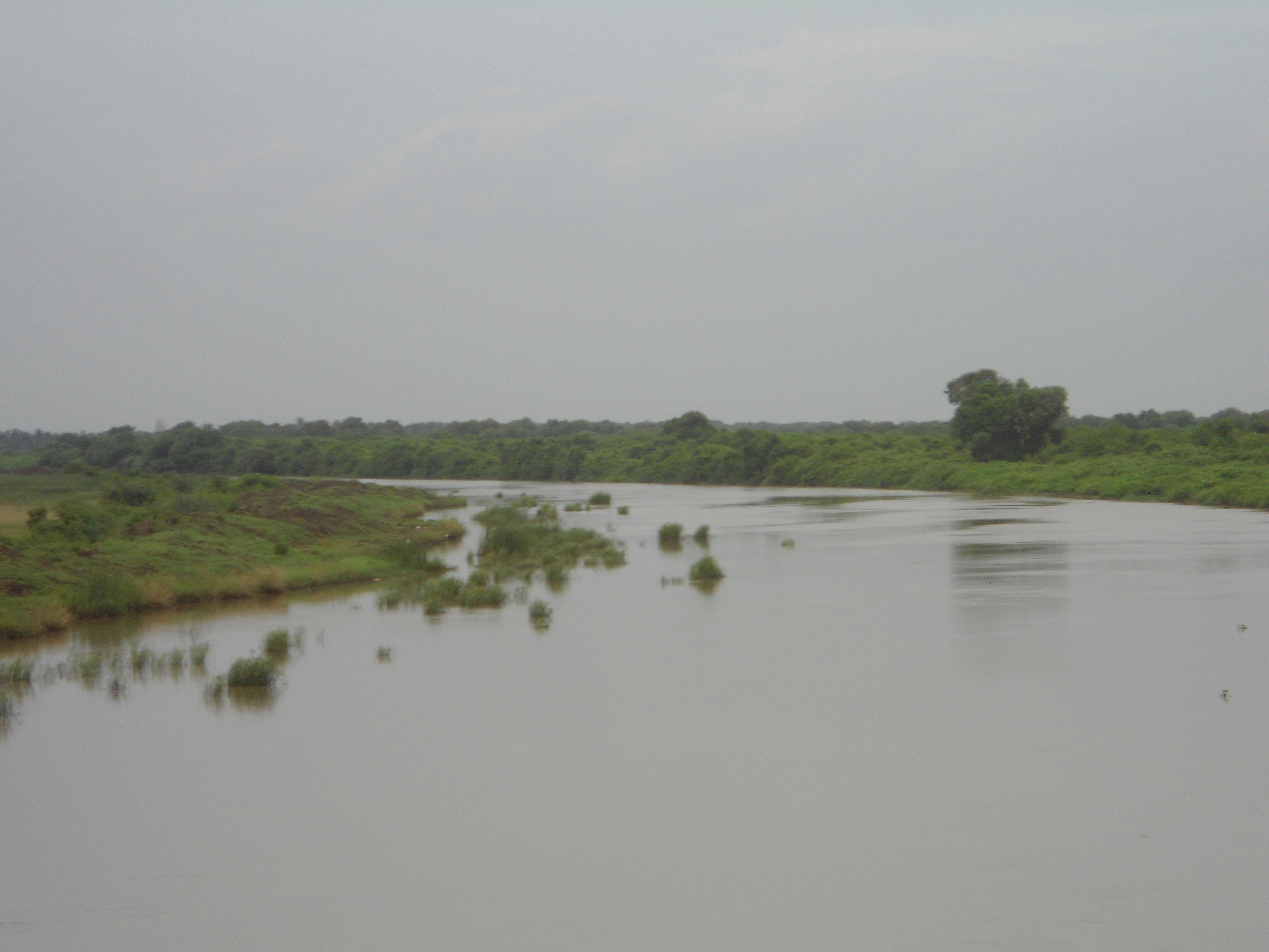 Koringa River during monsoon at Tallaraevu in East Godavari district of Andhra Pradesh